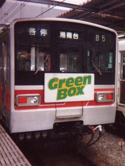 相模鉄道新7000系GreeBox 二俣川にて TYPE-New 7000 owns Sagami railway company between at Futamatagawa station.